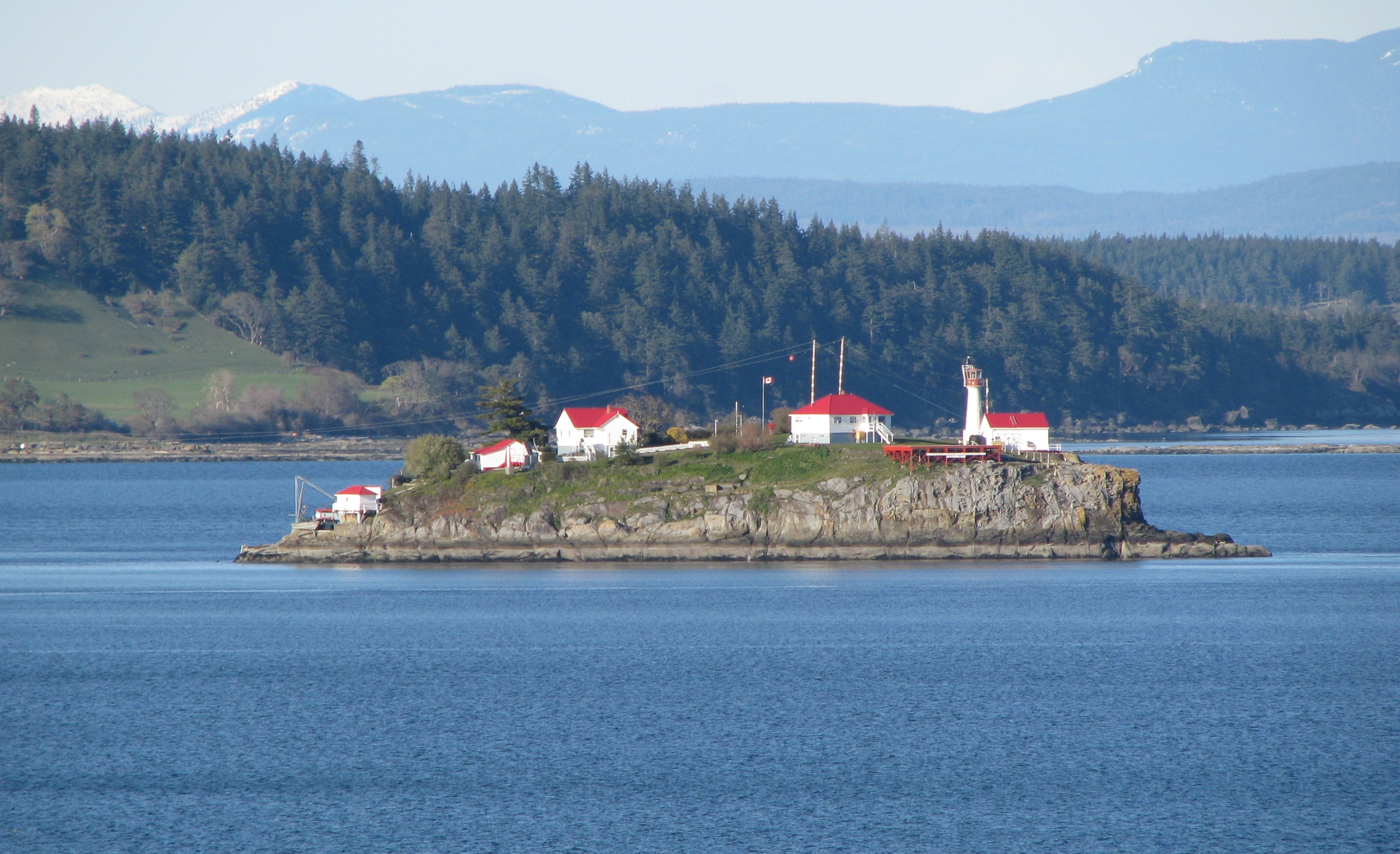 Chrome Island Lighthouse on the small island of the same name lies at the north end of Denman Island where the waters of Baynes Sound (between Vancouver Island and Denman Island) and the Lambert Channel (between Denman Island and Hornby Island meet the Strait of Georgia which lies to the south (right side of photo). The mountains in the background are on the mainland coast of British Columbia in the area of Desolation Sound.